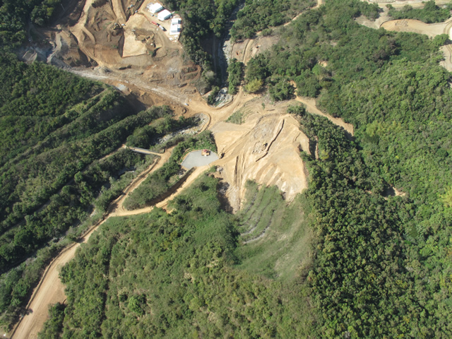 Overhead view of the Portugues Dam's foundation.